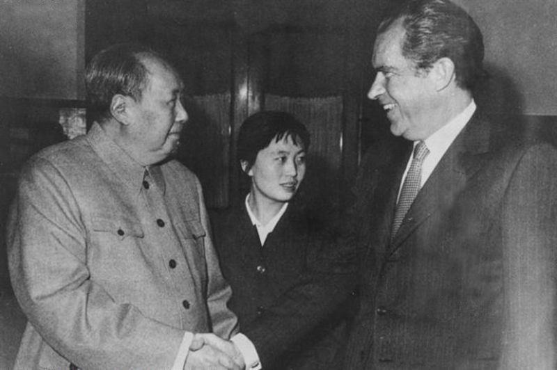 Mao Zedong, Zhang Yufeng and Richard Nixon